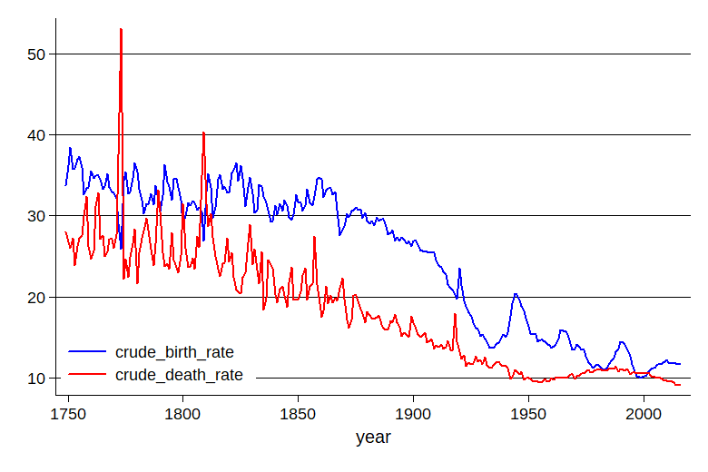 A newer version of File:Demographic change in Sweden 1735-2000.png showing the crude birth and death rates until 2016.